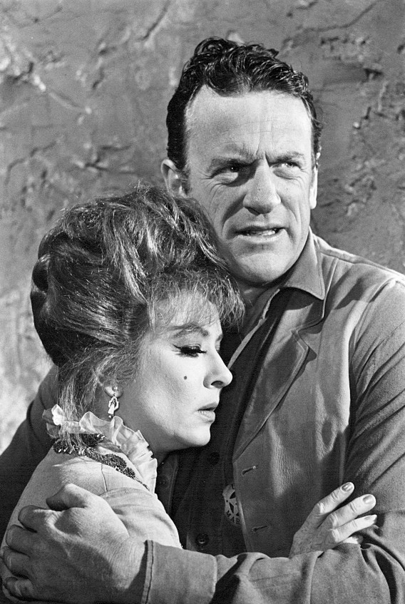 Photo of Amanda Blake as Miss Kitty Russell and James Arness as Marshall Matt Dillon from Gunsmoke.